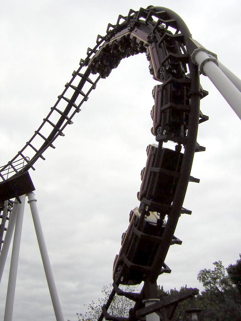 Sidewinder roller coaster at Hersheypark.